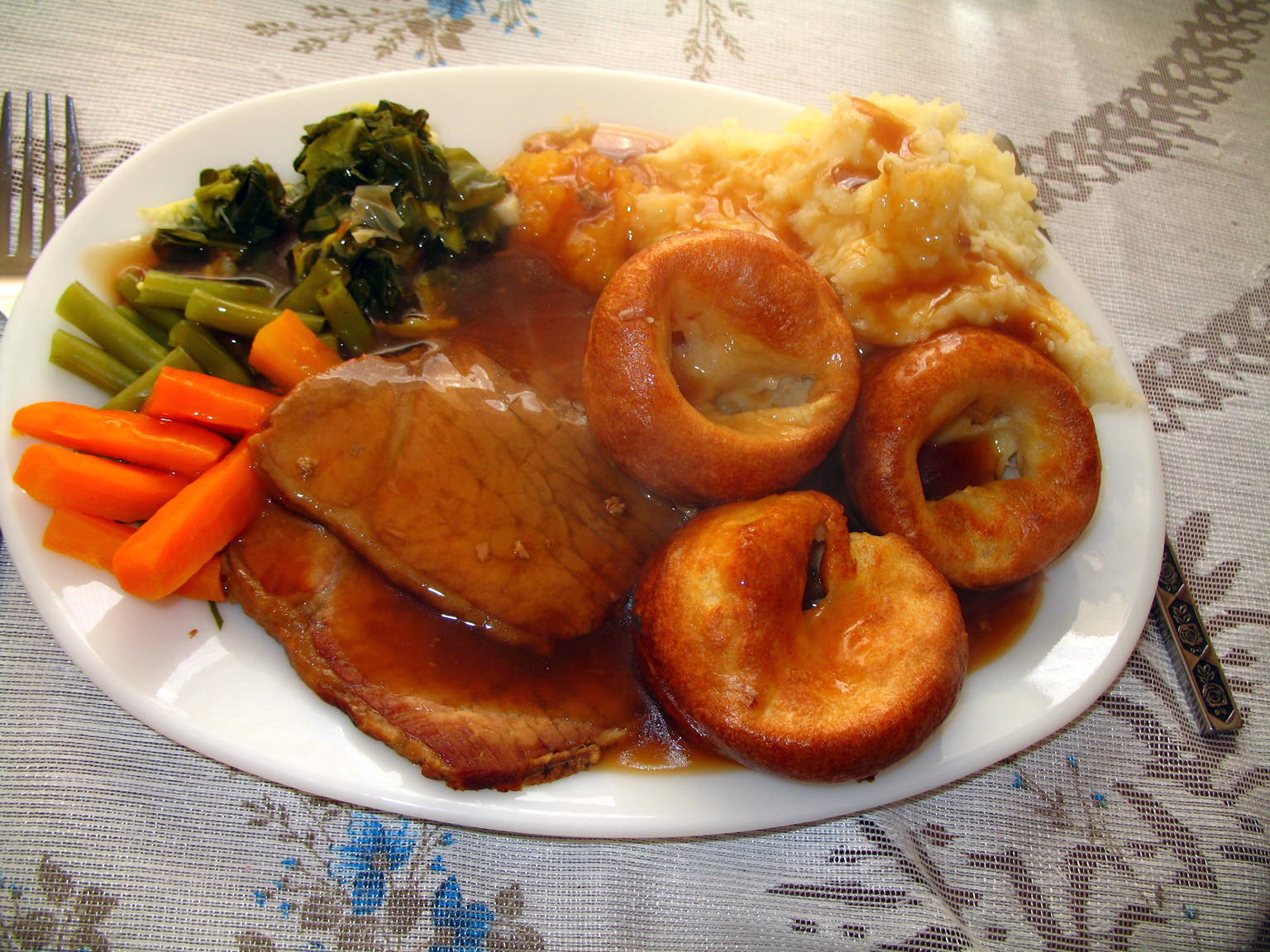 A traditional Sunday roast: roast beef, vegetables, mashed potatoes, Yorkshire pudding and gravy.